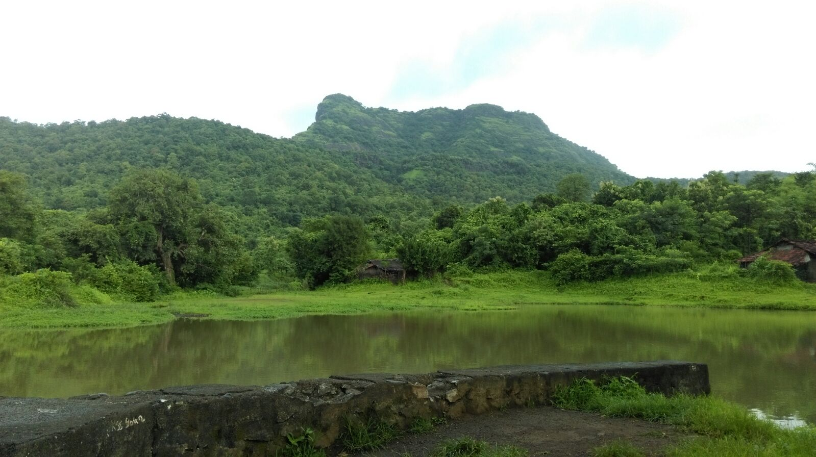 Tandulwadi fort seen from Tandulwadi village